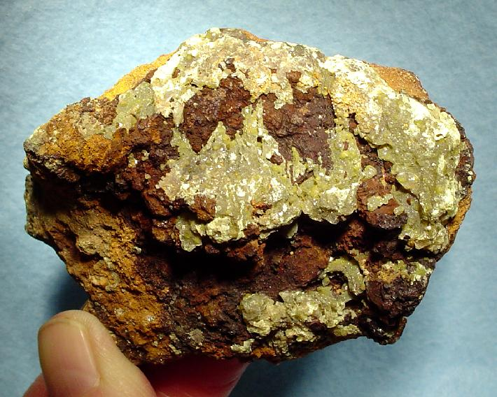 Iodargyrite Locality: Broken Hill, Yancowinna County, New South Wales, Australia (Locality at ) Size: 9.3 x 6.3 x 5.7 cm. Iodargyrite is one of the relatively rare silver iodine halides for which the renowned Broken Hill deposit is justifiably famous. Waxy, translucent, olive-green to yellow-green, iodargyrite crystals in clusters or as isolated crystals richly and attractively cover the sculptural, vuggy, gossan matrix. This is overall a very rich, large, and unusually attractive specimen. Classic, older, combination material from this world-class locality - it probably dates to the early 1900s to 1940s era here.